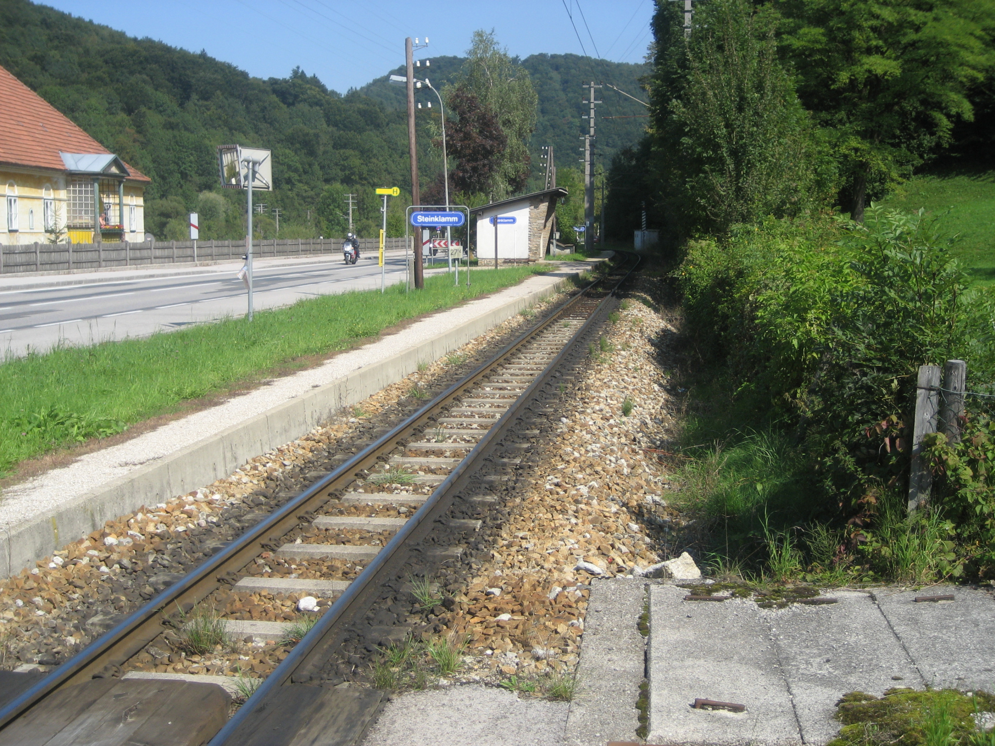 Steinklamm train station in Lower Austria